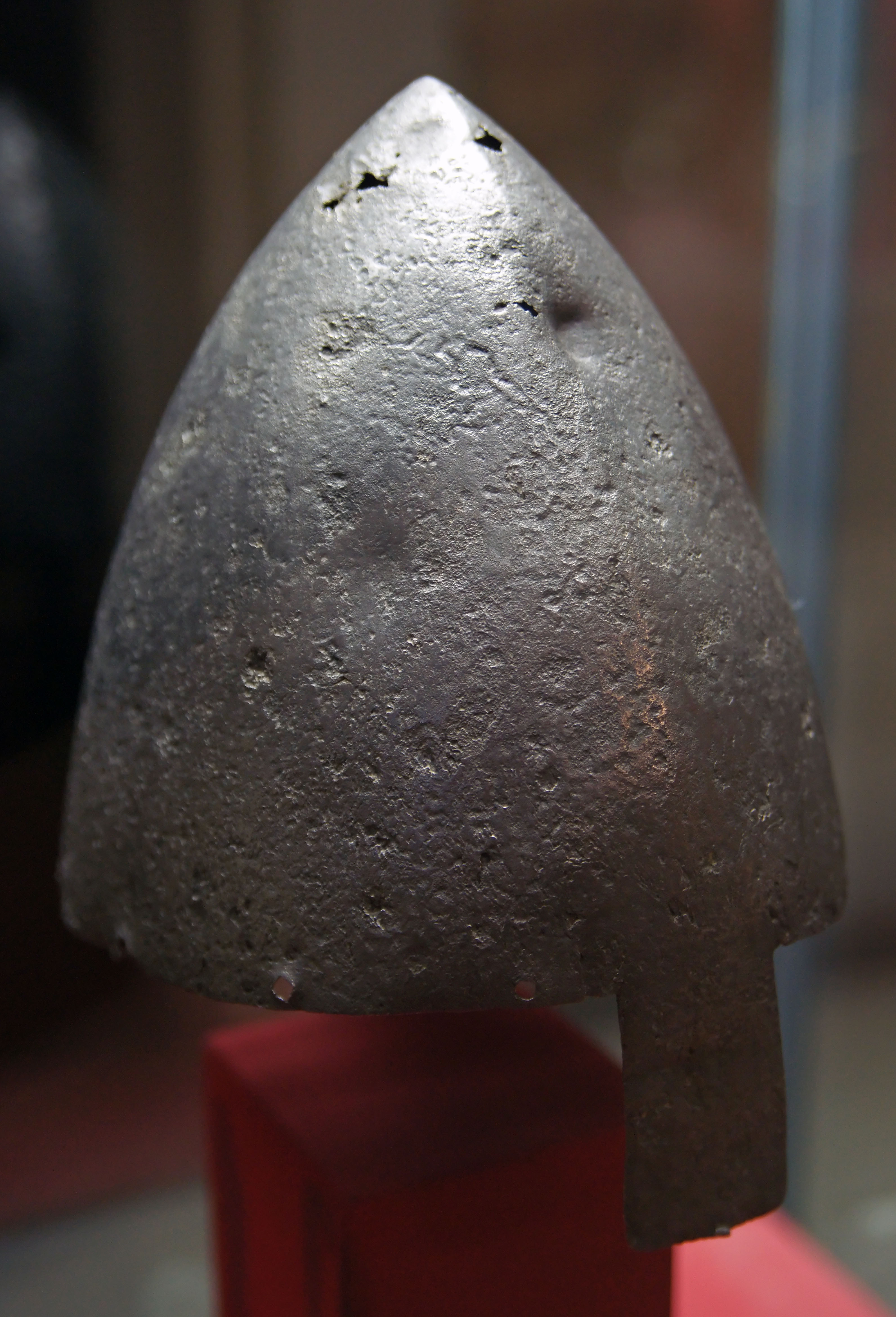 One of the few surviving nasal helmets, 11th century.